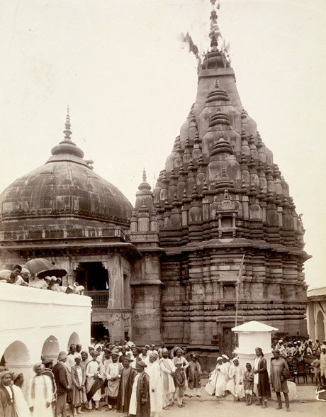 The temple priests and other people gathered in front of the Vishnupad temple.